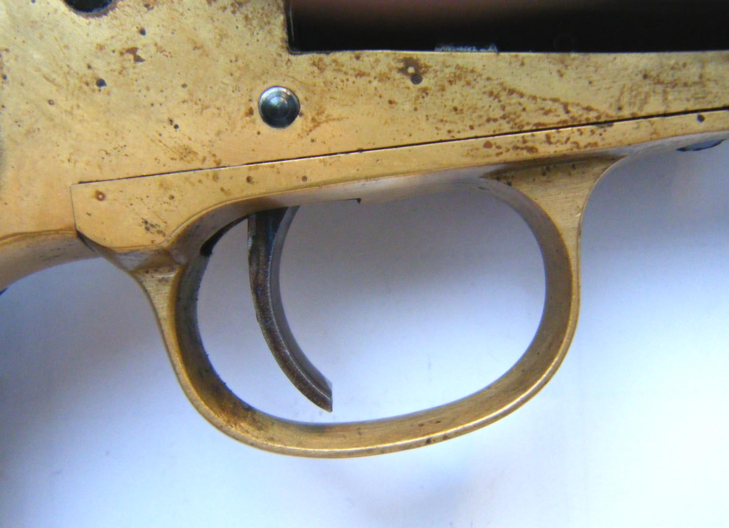 Trigger Single Action